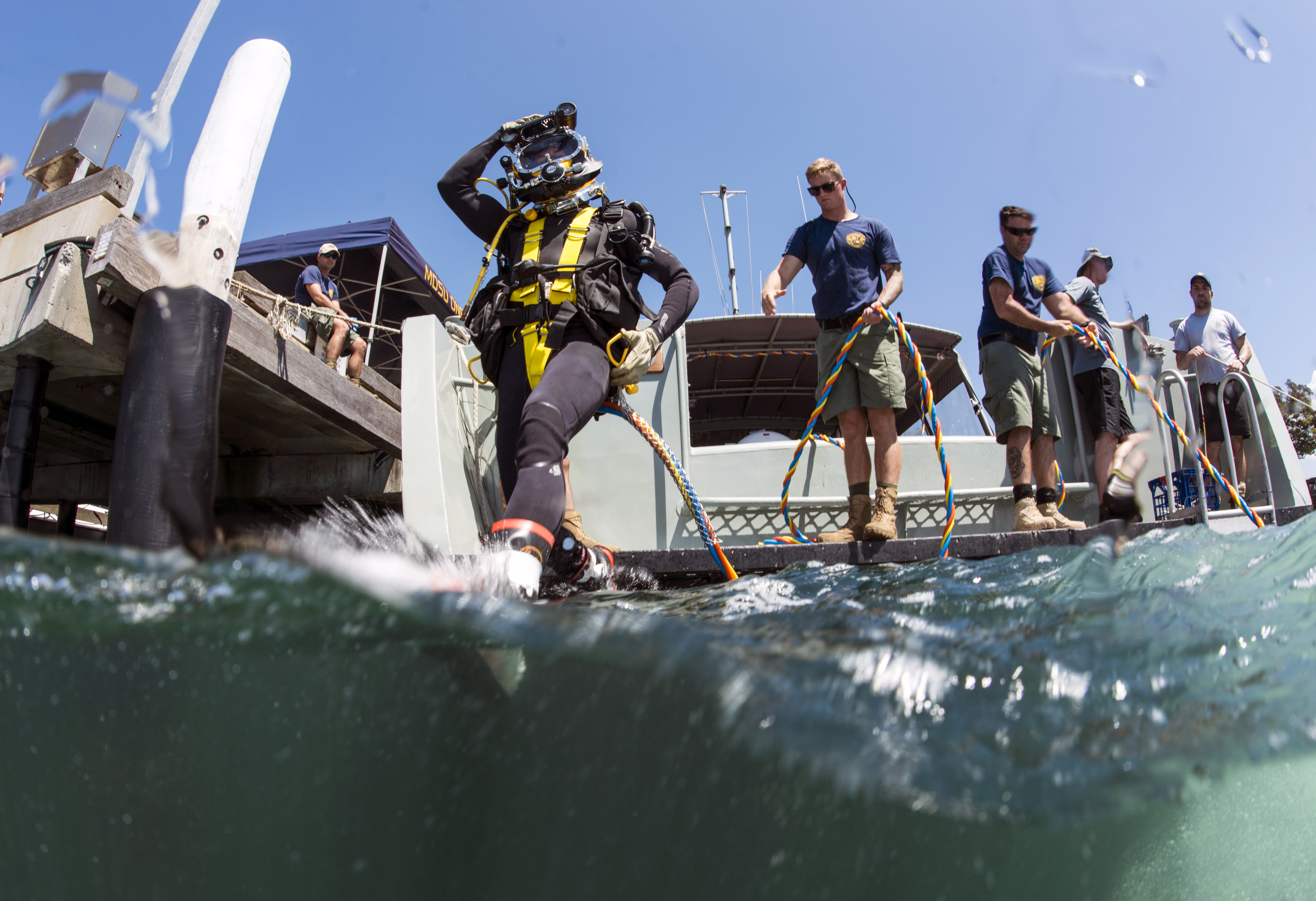 SYDNEY, Australia (Nov. 10, 2016) Petty Officer 2nd Class Corbin Stinson, assigned to Mobile Diving Salvage Unit (MDSU) 1, enters the water for a dive during Exercise Dugong 2016, in Sydney, Australia. Dugong is a bi-lateral U.S Navy and Royal Australian Navy training exercise, advancing tactical level U.S. service component integration, capacity, and interoperability with Australian Clearance Diving Team (AUSCDT) ONE. (U.S. Navy photo by Petty Officer 1st Class Arthurgwain L. Marquez/Released)161110-N-CW570-0107 Join the conversation: navylive.dodlive.mil